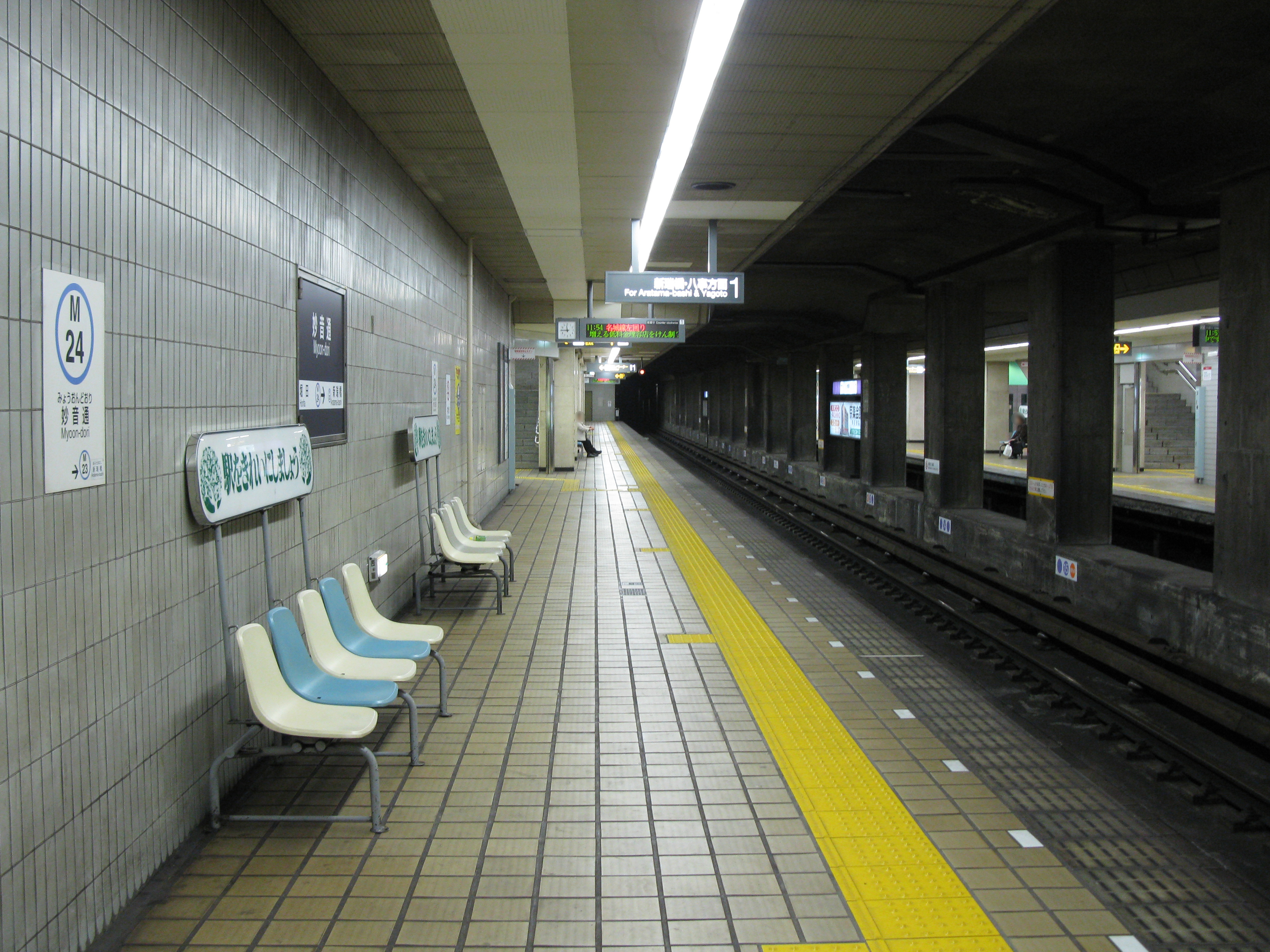 Myōon-dōri Station platform (Nagoya Municipal Subway Meijō Line)